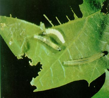 Mature oak leaf roller larva, Archips semiferanus